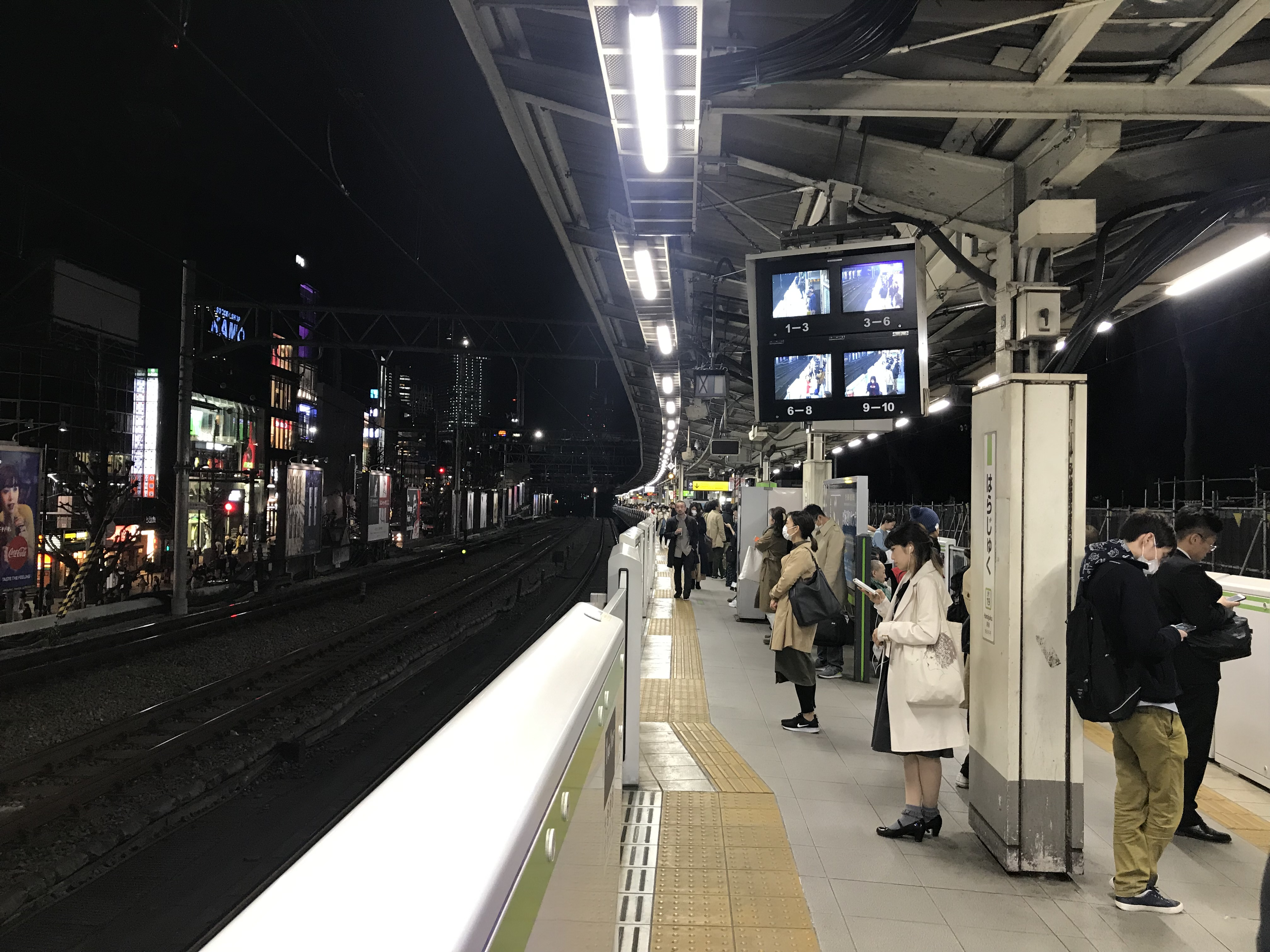 Platform of Harajuku Station at night